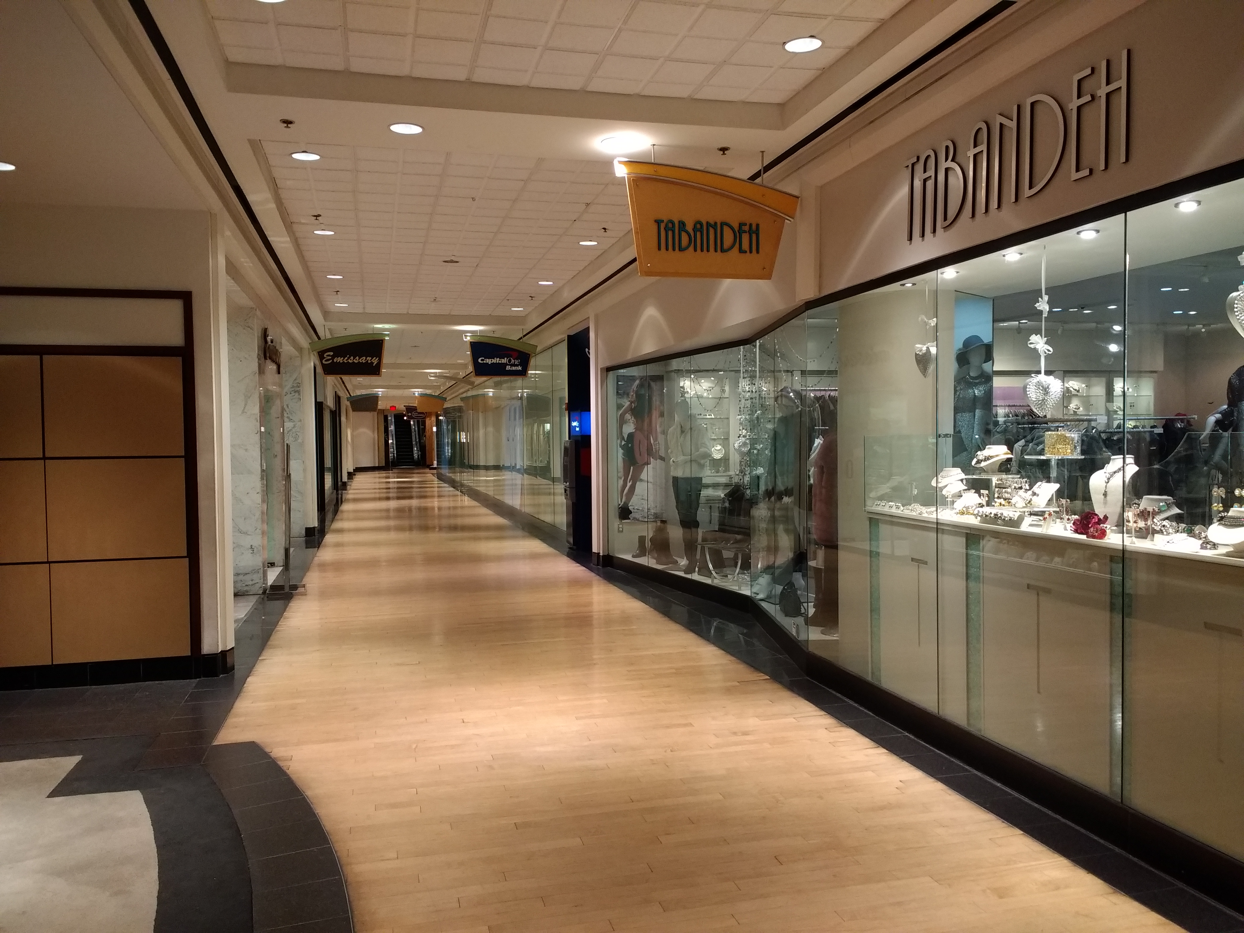 Interior of Mazza Gallerie, a shopping center in Washington, DC.